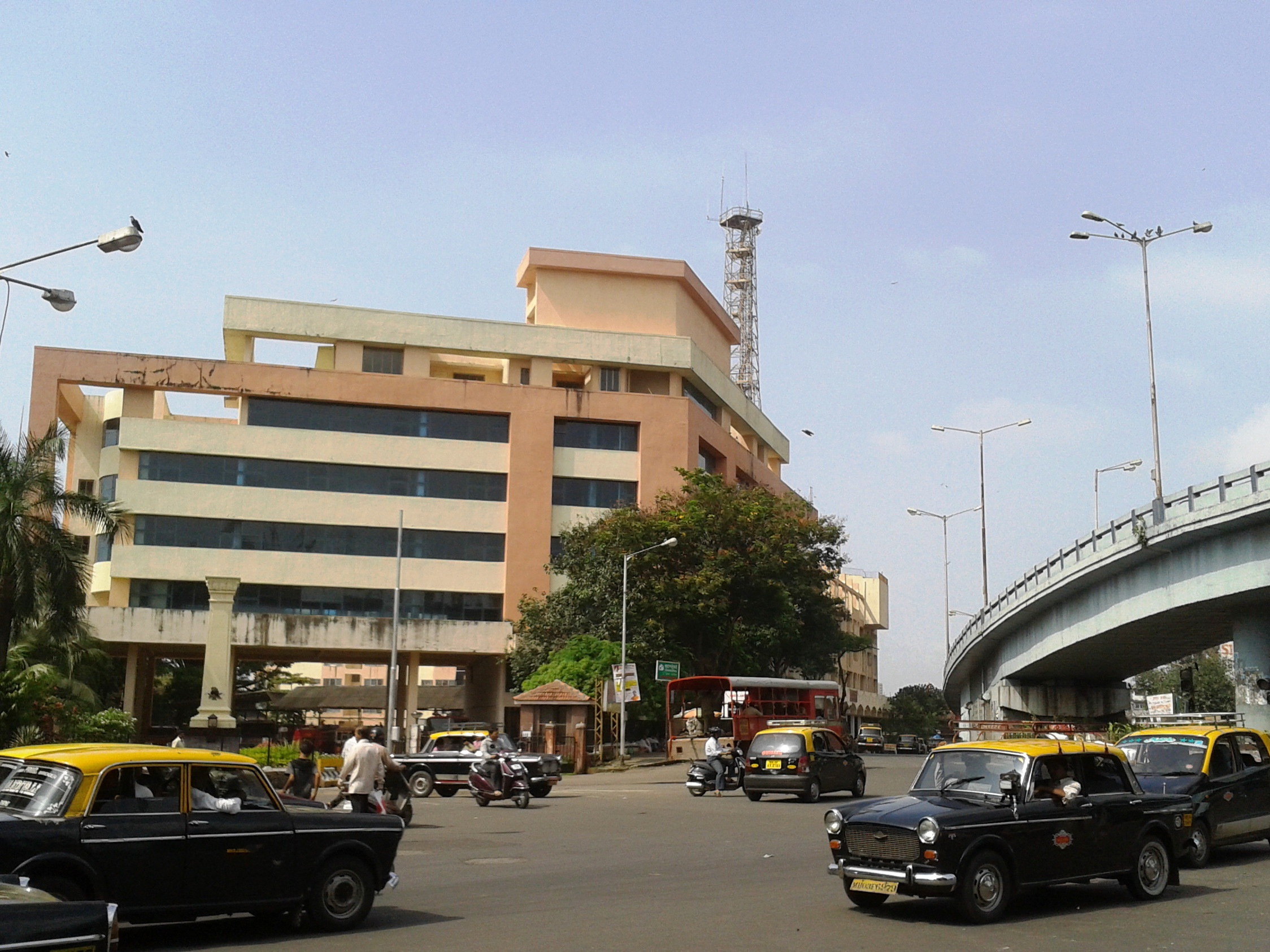 Mumbai Fire Brigade Headquarter Building in Byculla, Mumbai